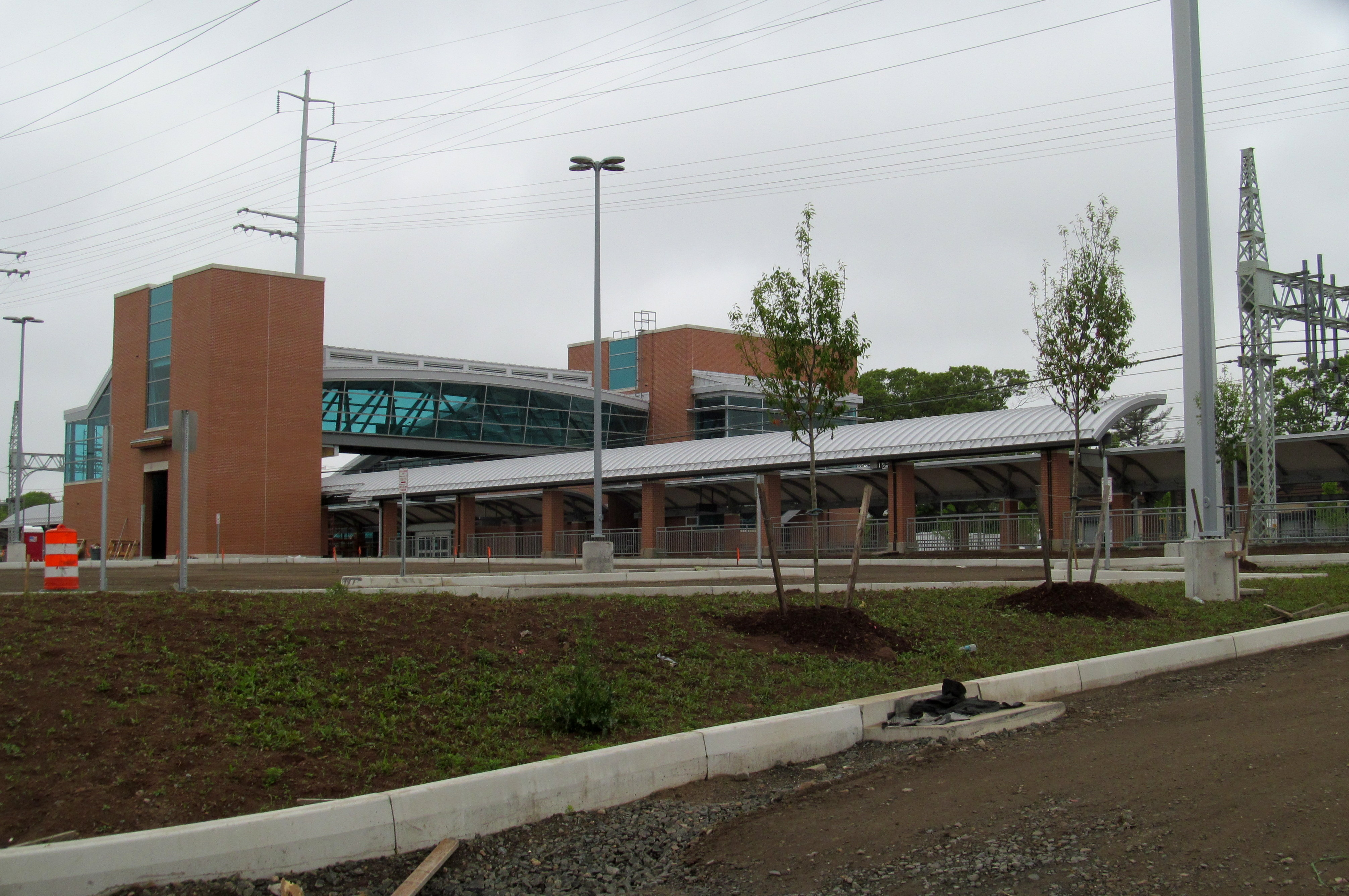 West Haven station nearly complete in May 2013